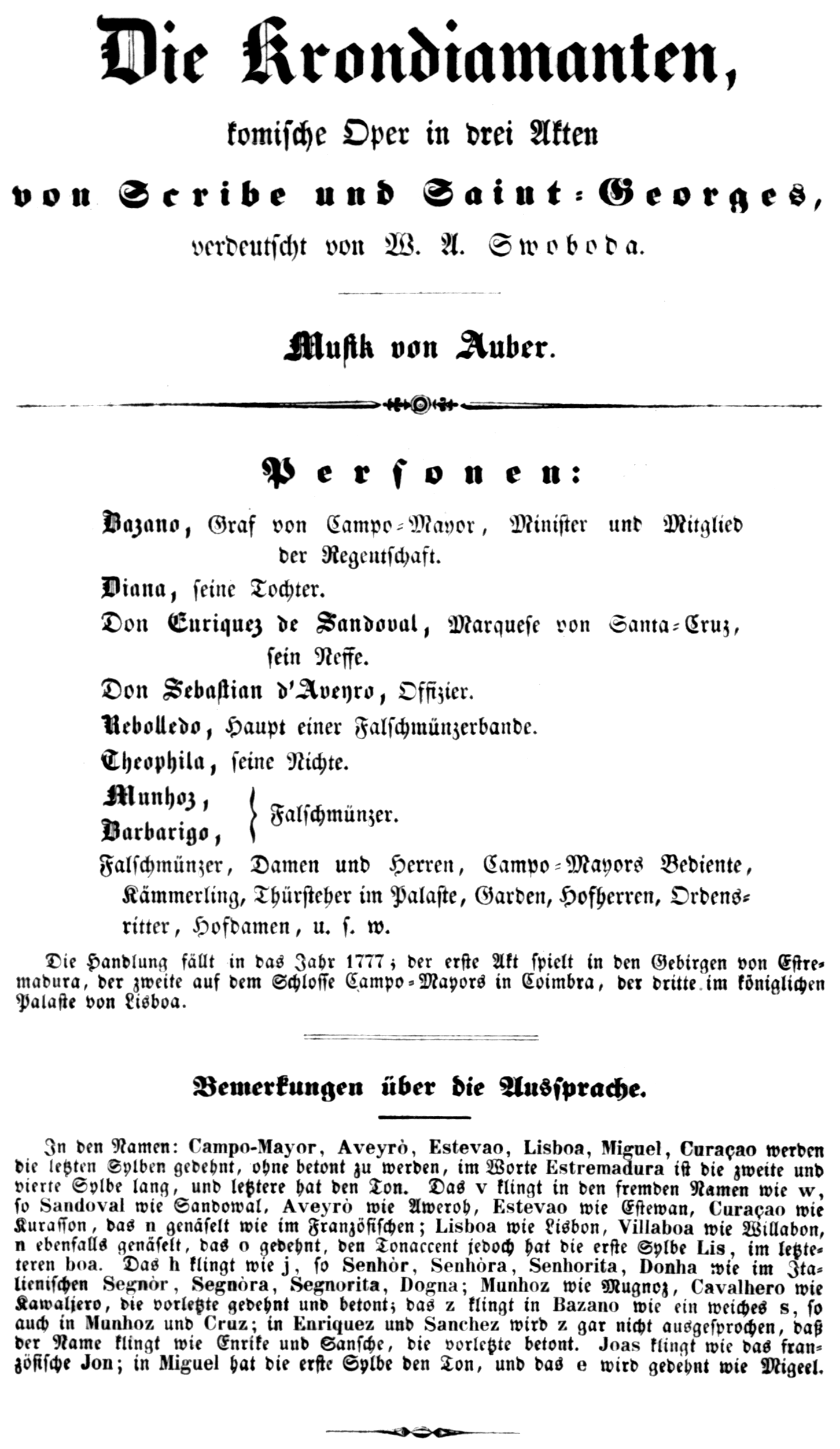 Auber - Les diamants de la couronne - title page of the german libretto, Mainz 1841